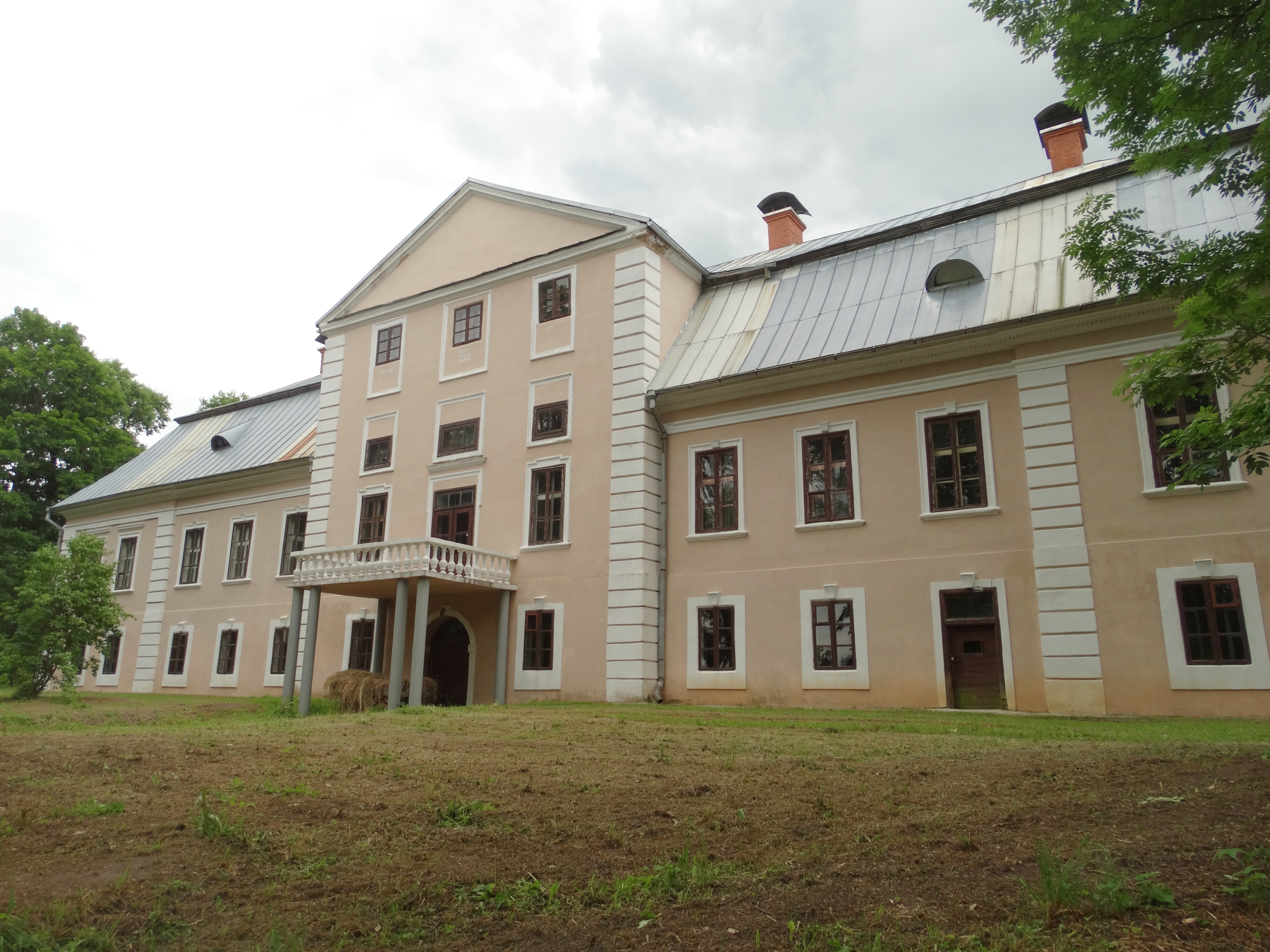 Biliūnai manor, Raseiniai district, Lithuania